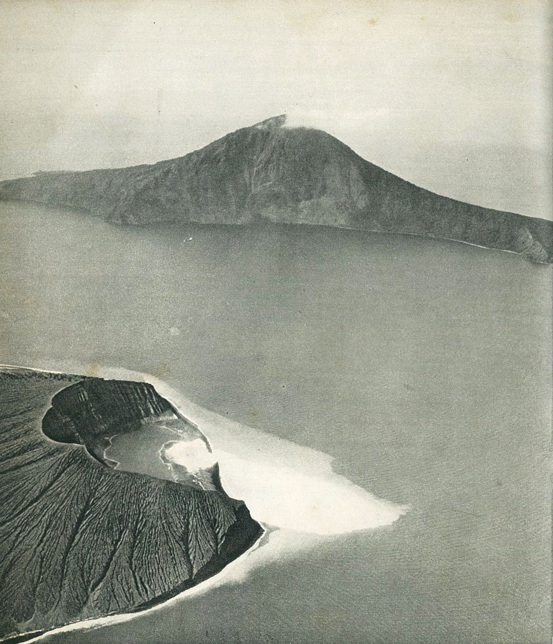 Krakatoa